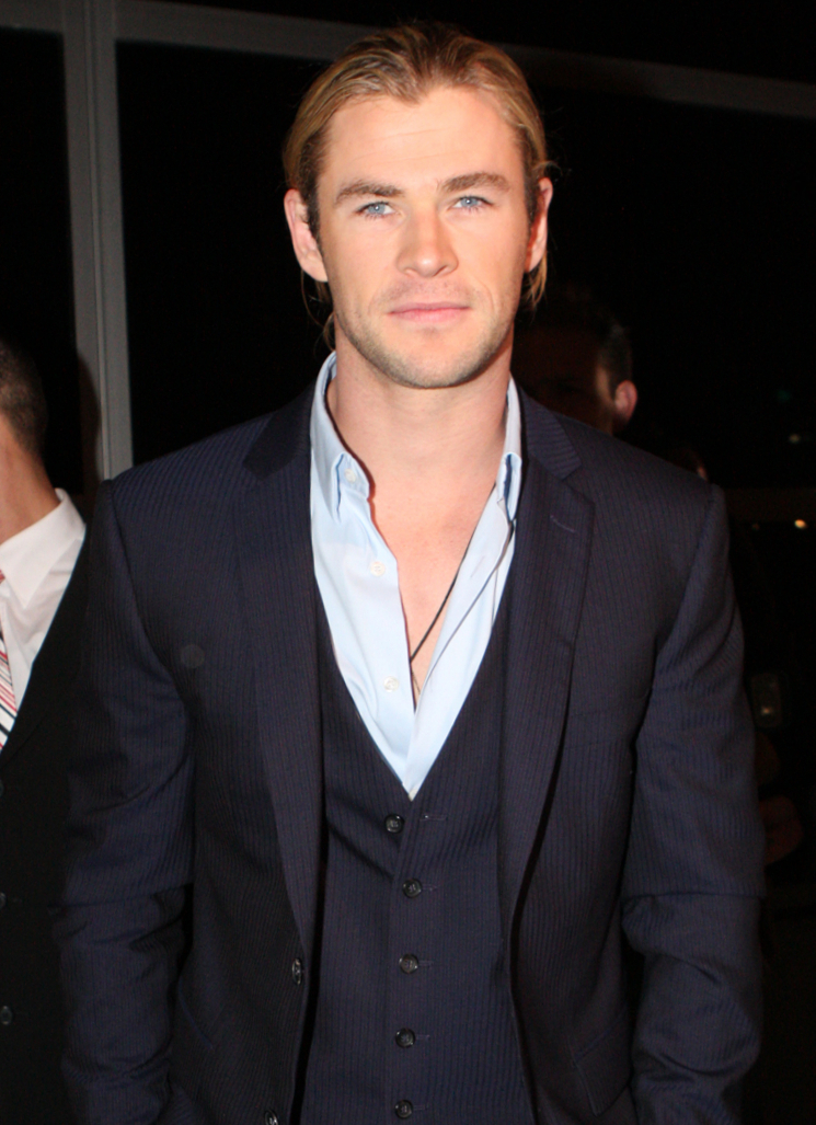 Chris Hemsworth at the Snow White and the Huntsman movie premiere - Bondi Junction, Sydney Australia 2012.